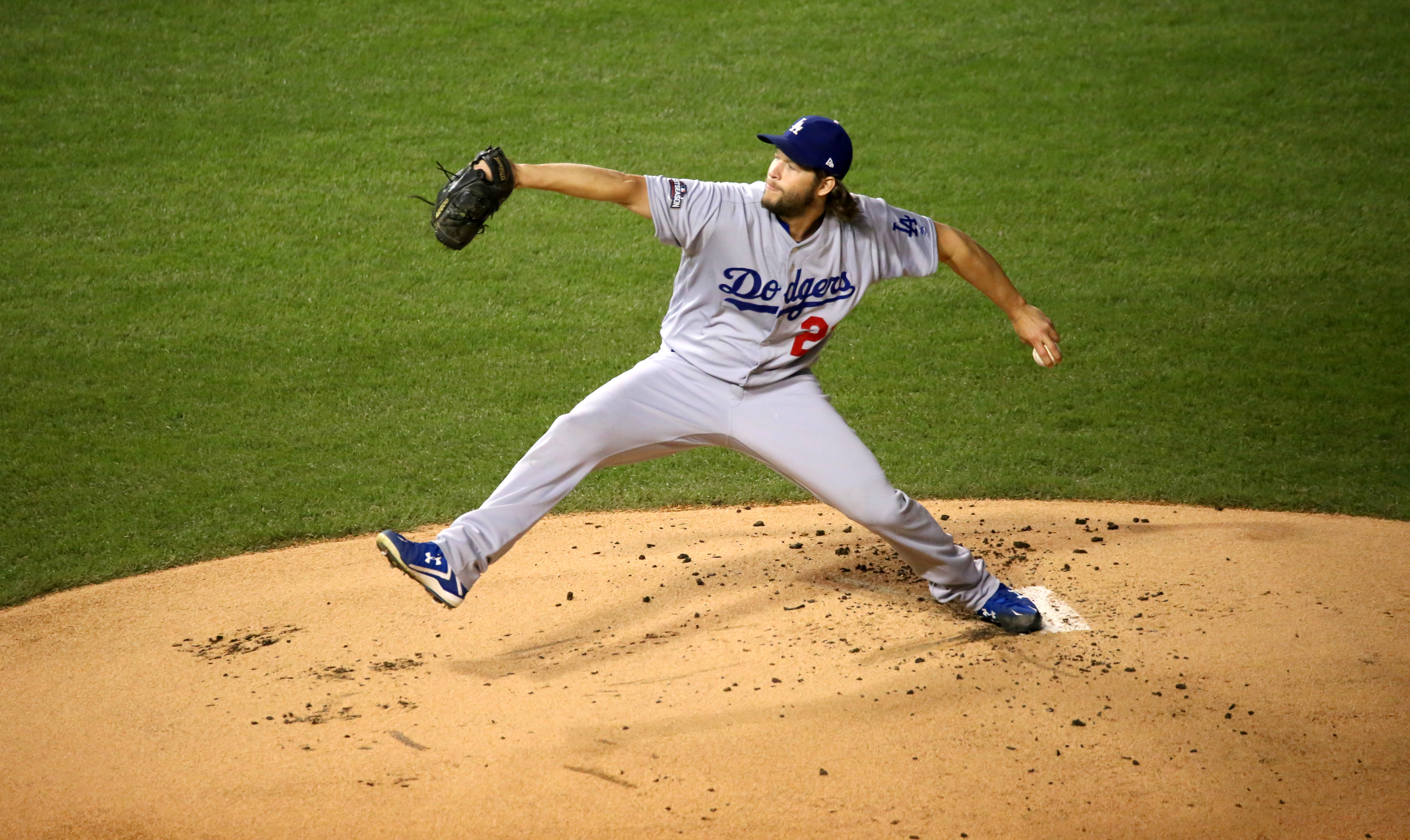 Dodgers starter Clayton Kershaw delivers a pitch during NLCS Game 6.